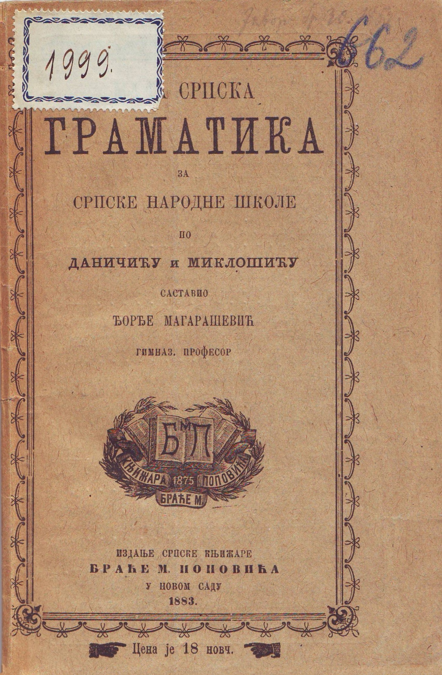 Cover of Mala srpska gramatika za srpske narodne škole po Daničiću i Miklošiću (1883) by Đorđe Magarašević. Srpski (latinica): Naslovna strana Male srpske gramatike za srpske narodne škole po Daničiću i Miklošiću (1883) Đorđa Magaraševića.